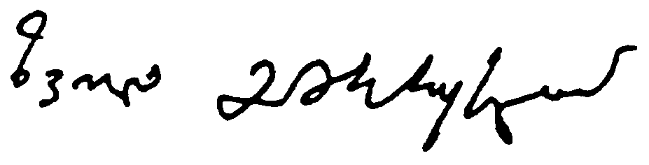 Zviad Gamsakhurdia personal signature